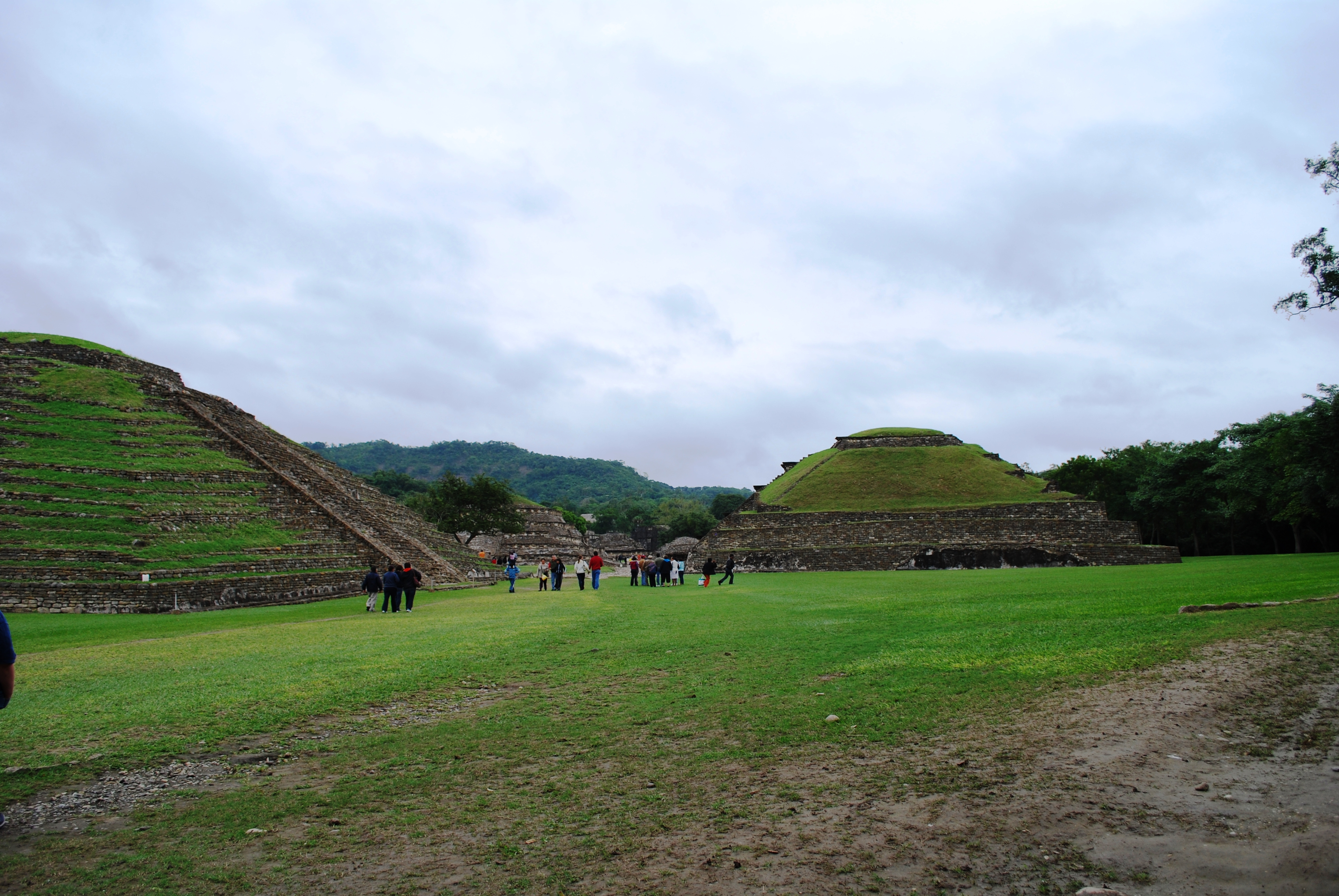 At south east corner of the Arroyo Group, Tajin, Veracruz, Mexico